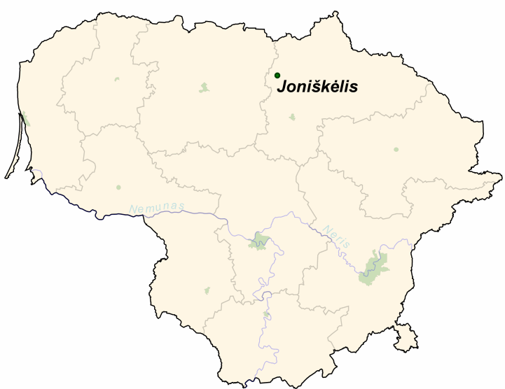 Joniškėlis on the map of Lithuania